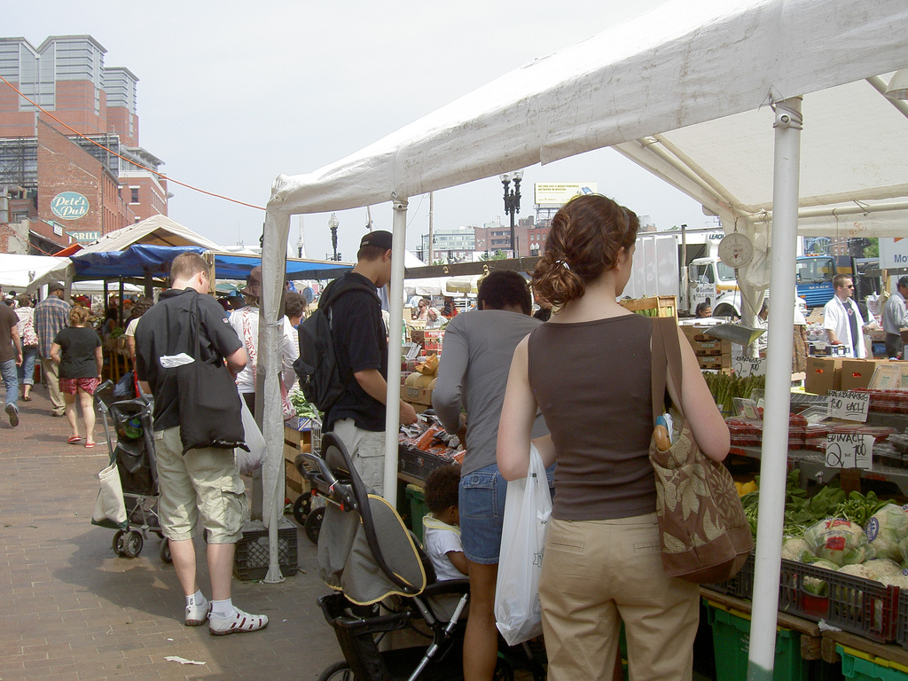 The produce stalls at Haymarket have changed since I was in college. You no longer have to buy a flat of strawberries. Now you can buy them a pound at a time.